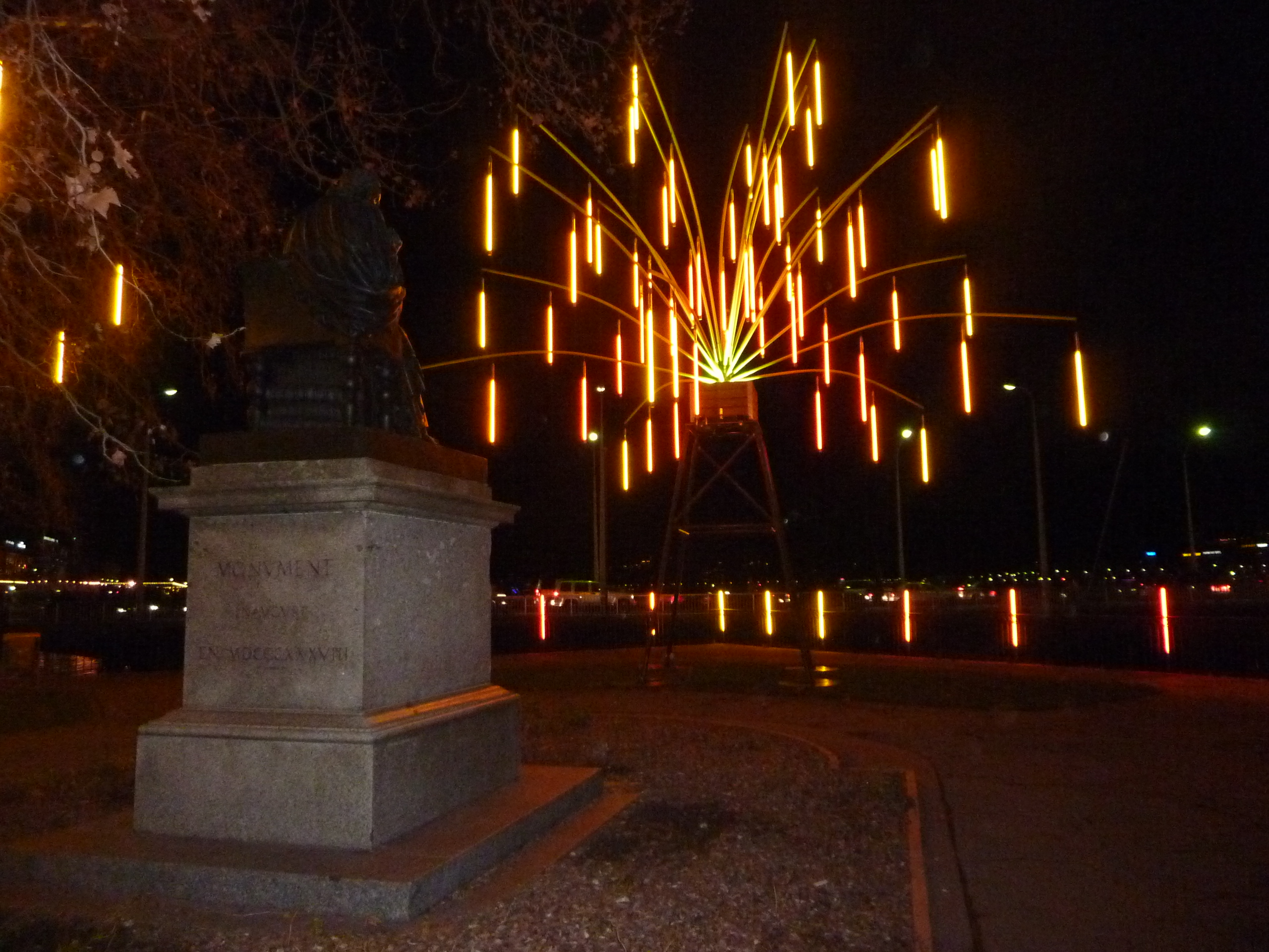 Light show for 2010 Festival Arbres et Lumières in Geneva. Artist: Tilt – France, Name: Echinodermus → Ile Rousseau